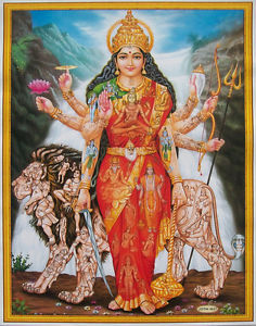 Durga Shakthi